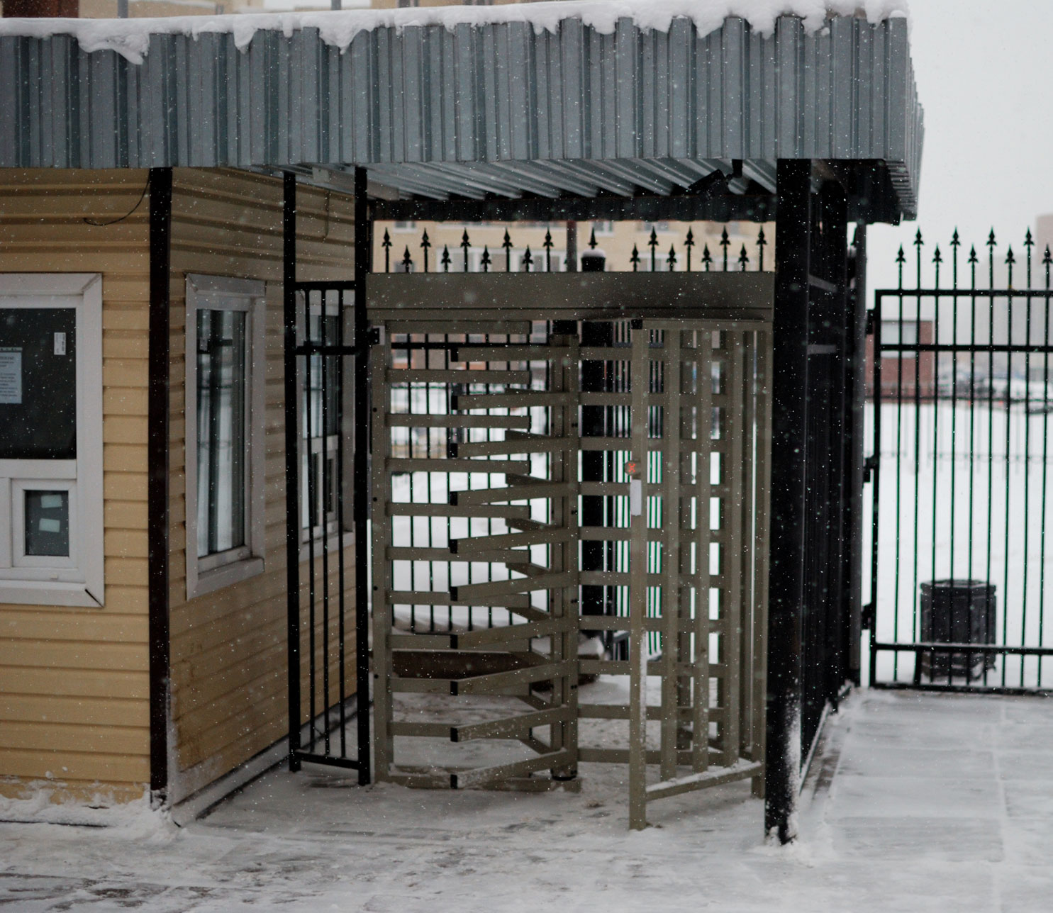 PERCo turnstiles, Territory of a students' hostel, St. Petersburg